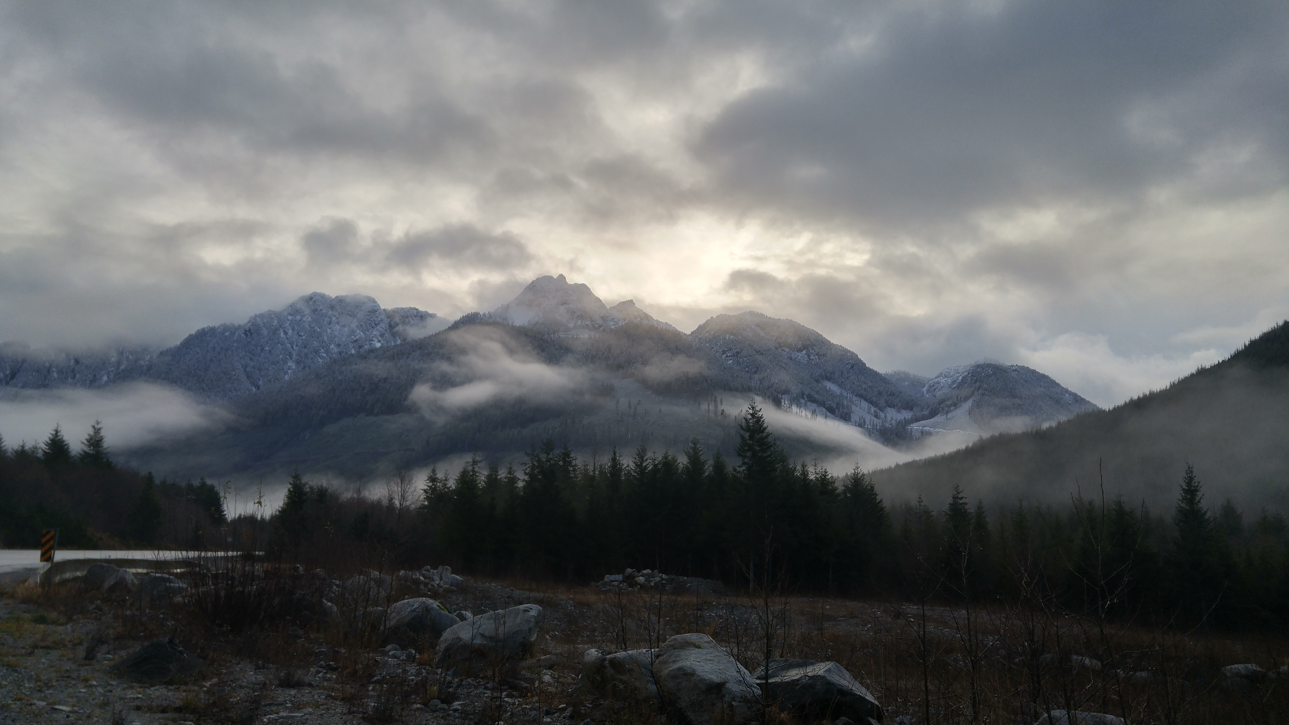 Jagged Mountain seen from the side of highway 19. Vancouver Island, B.C. Canada.